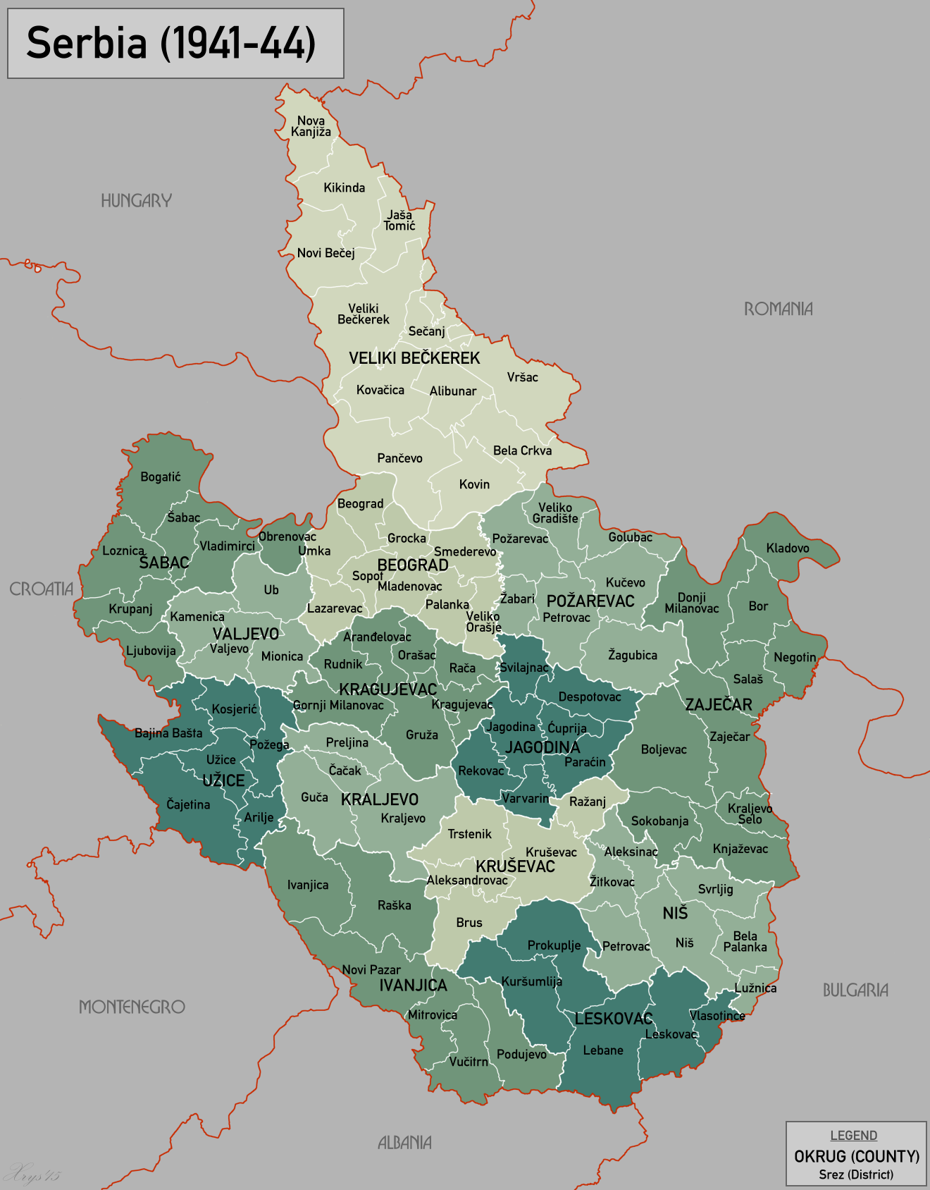 Map showing the Okruzi and Srezovi of Serbia from 1941-44.